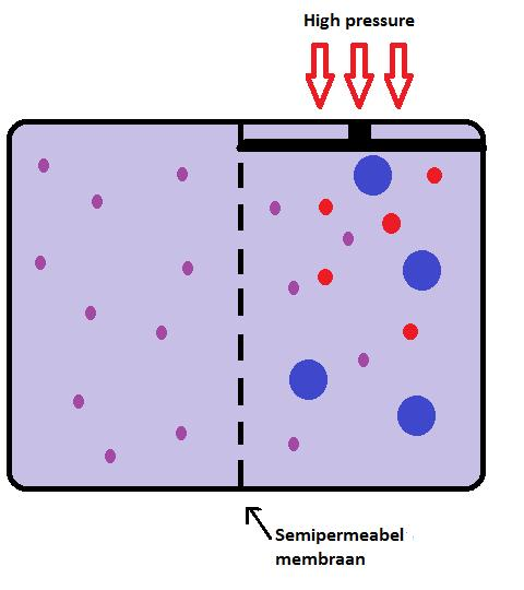 Describes ultrafiltration